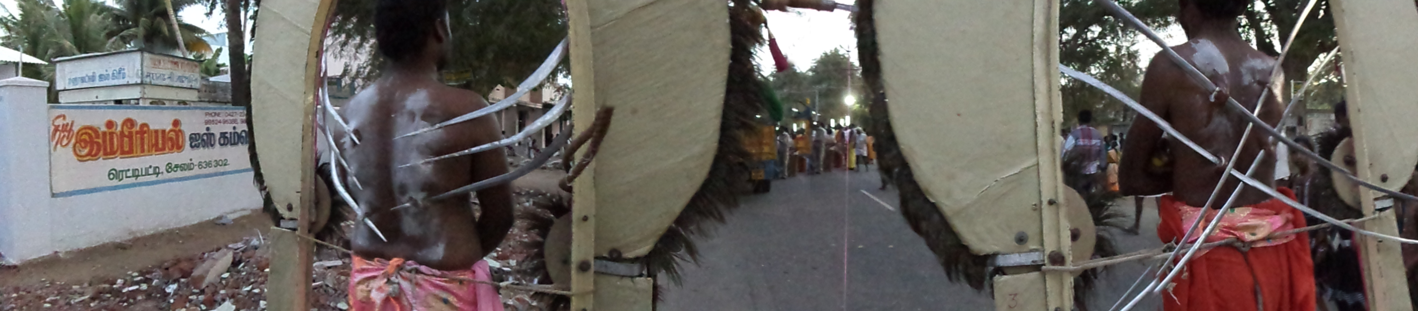 A Aesthetic Algu, A Alagu vow made to a deity, Jahir Reddypatty, Salem, Tamil Nadu, India.